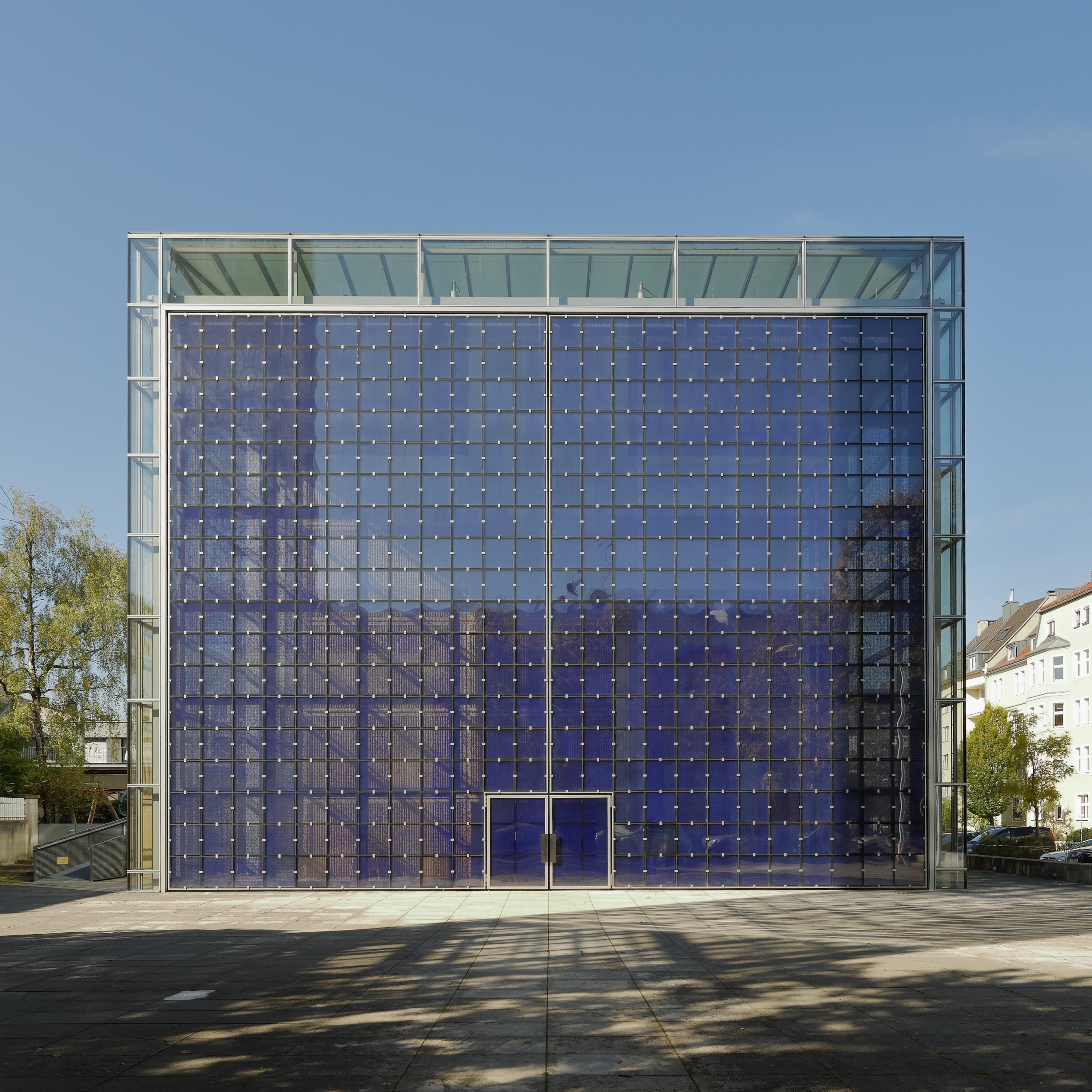 Sacred Heart Church, Munich, exterior